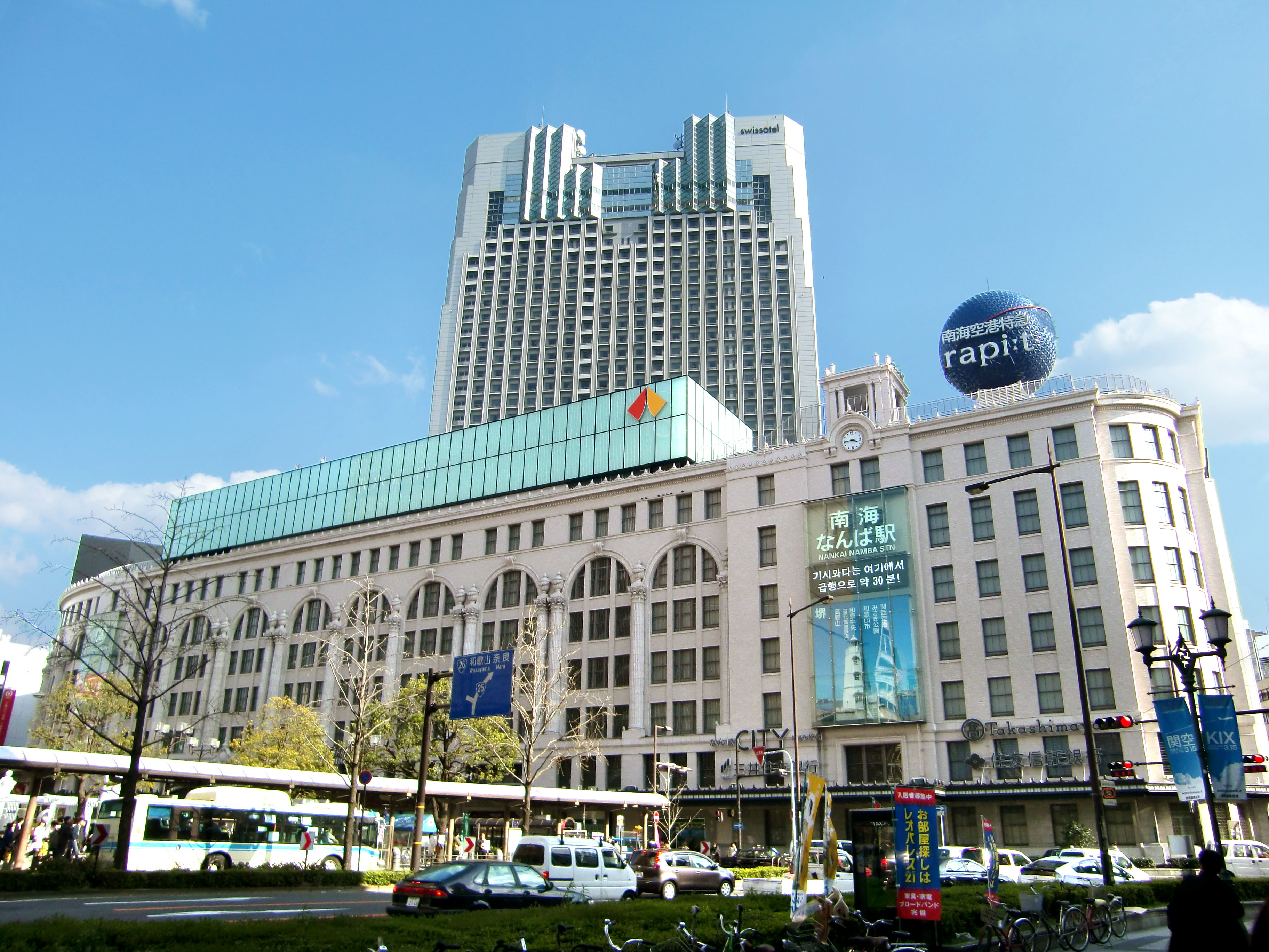 Namba Station, 5-1-60 Namba Chu0-ku Osaka-City Osaka Japan.